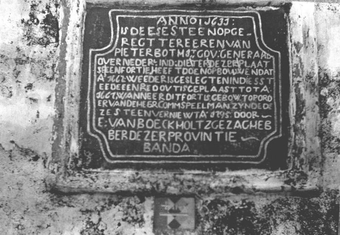 A memorial stone from 1633 in honour of Governor General Pieter Bot near VOC fort Belgica in Banda